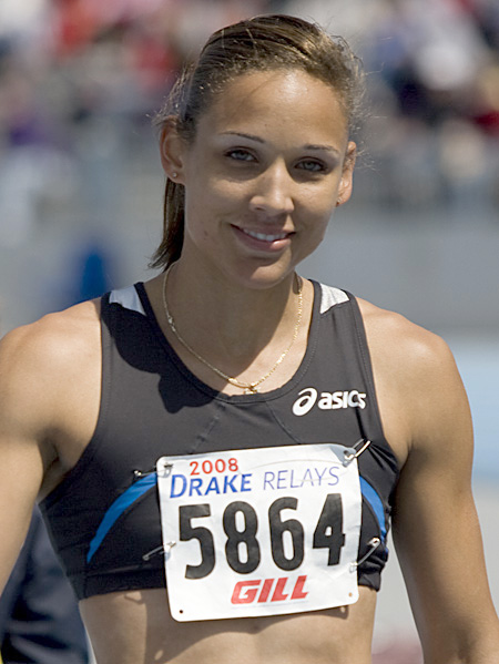 Lolo Jones after winning the women's invitational 100-meter hurdles at the Drake Relays in Des Moines, Iowa, on April 26, 2008.